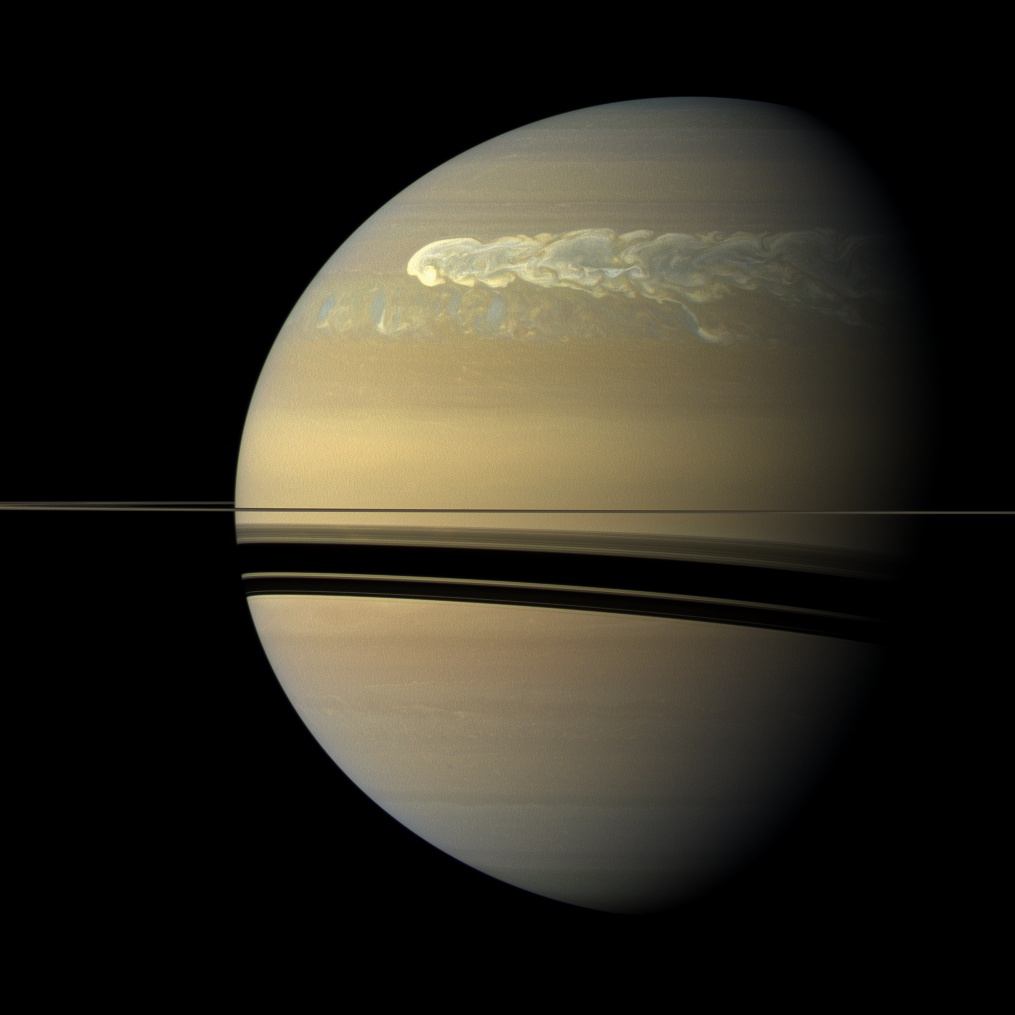 The huge storm (great white spot) churning through the atmosphere in Saturn's northern hemisphere overtakes itself as it encircles the planet in this true-color view from NASA’s Cassini spacecraft. Image credit: NASA/JPL-Caltech/SSI